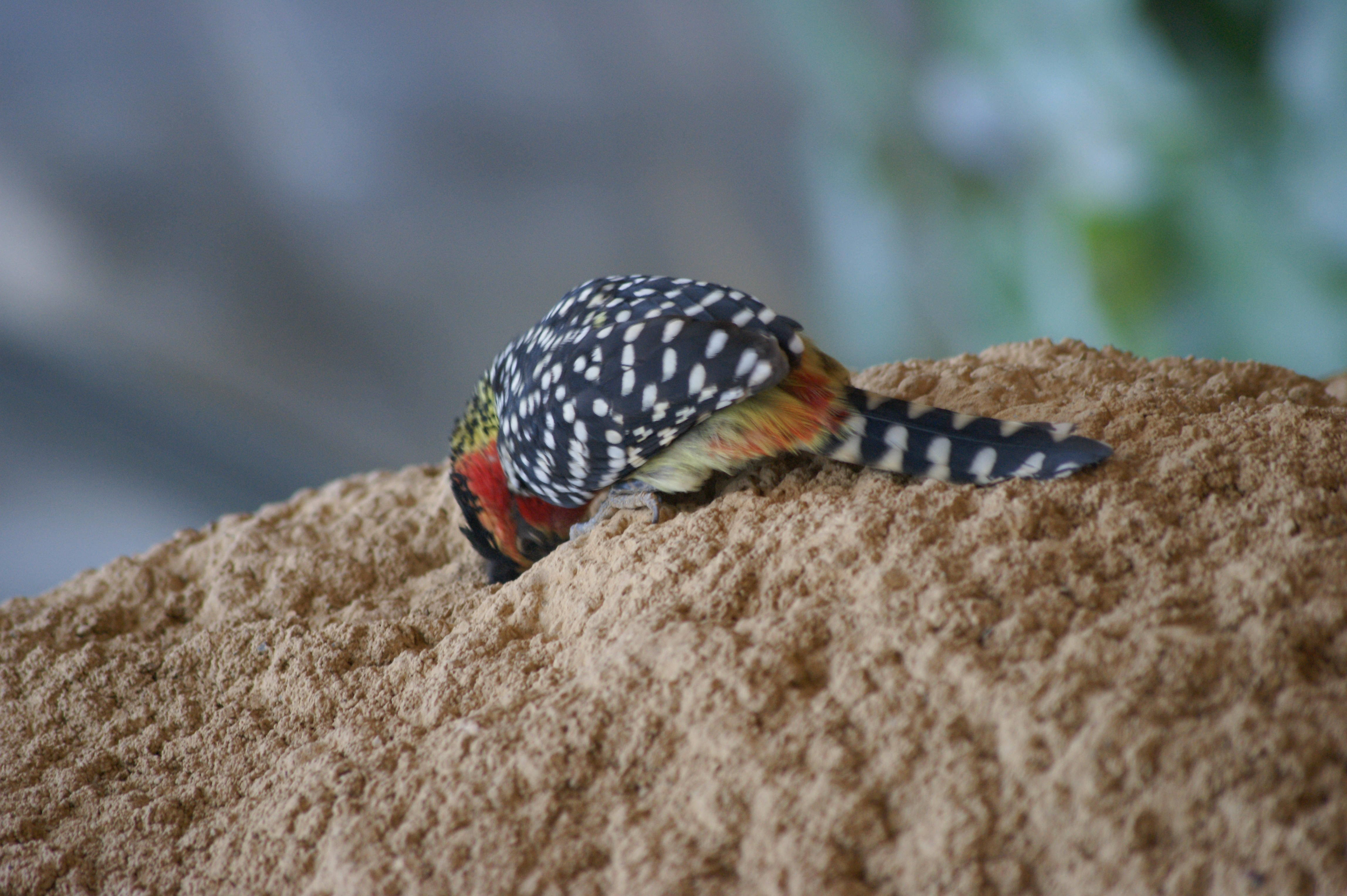 Red-and-yellow Barbet (Trachyphonus erythrocephalus) feeding from a termite mound.